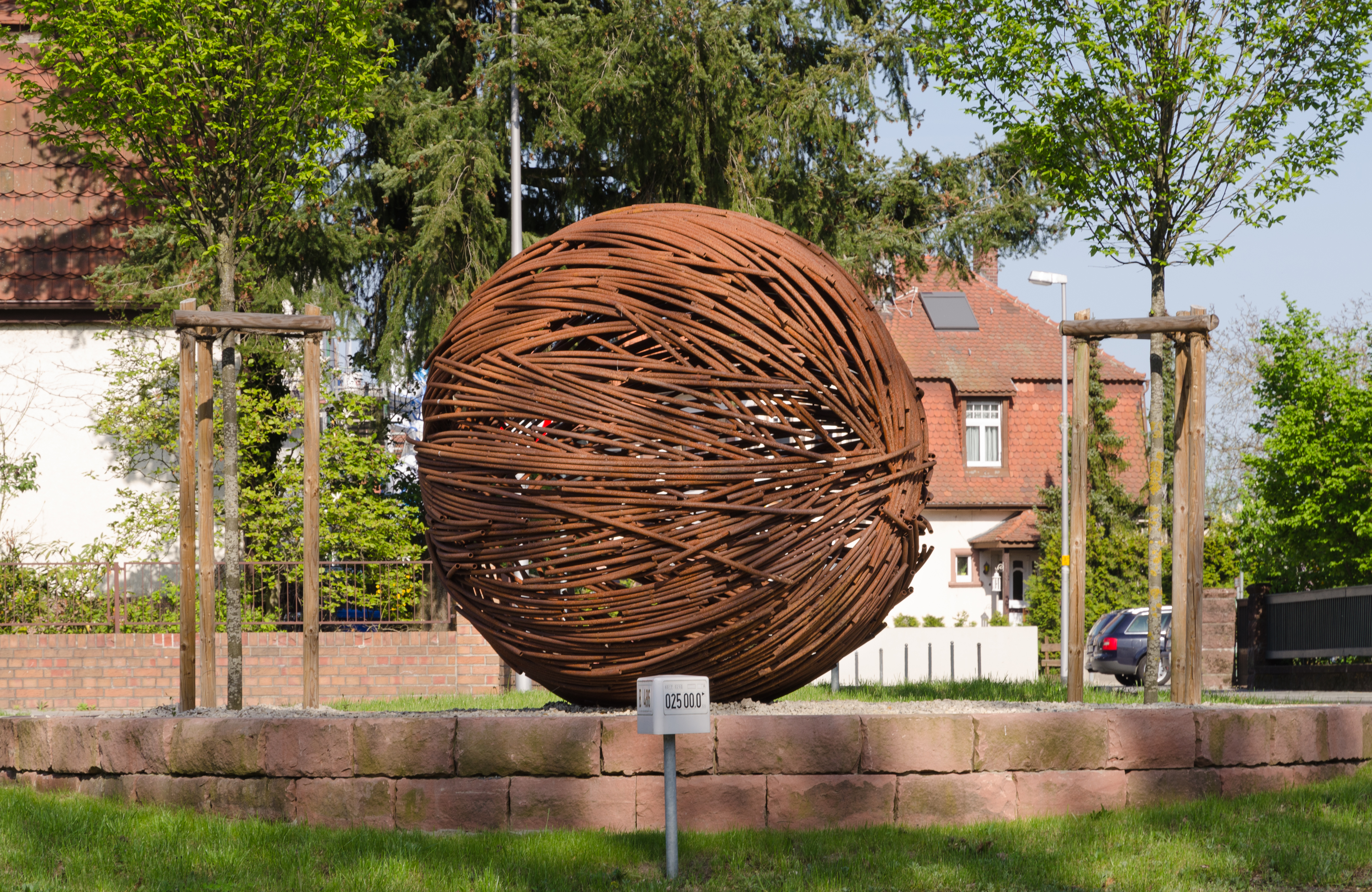 Sculpture: Gegen den Strich - Angelika Summa (2010), Mörfelden-Walldorf, Hesse, Germany.